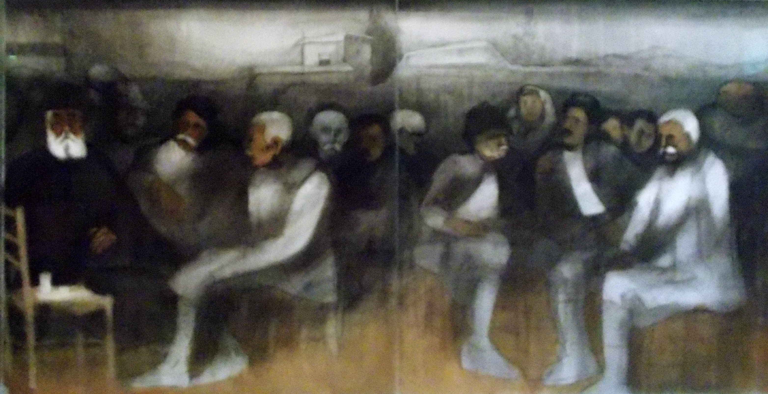 Leventis Gallery, Nicosia, Cyprus. Adamantios Diamantis - The World of Cyprus, part 4.